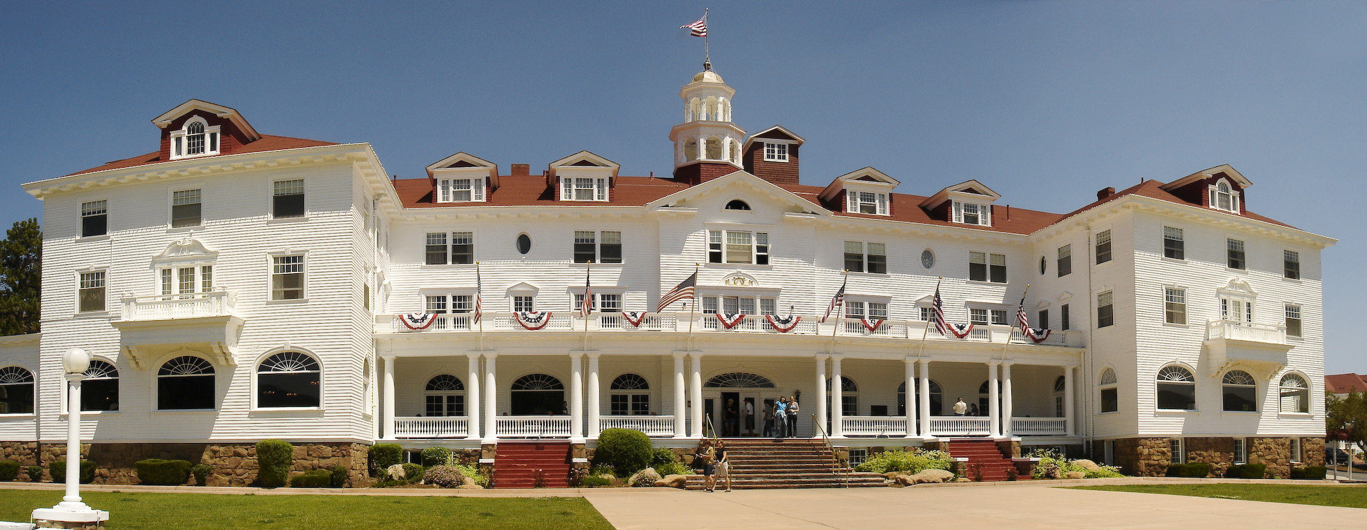 We got to the Stanley Hotel around noon on Saturday to get ready for our wedding.